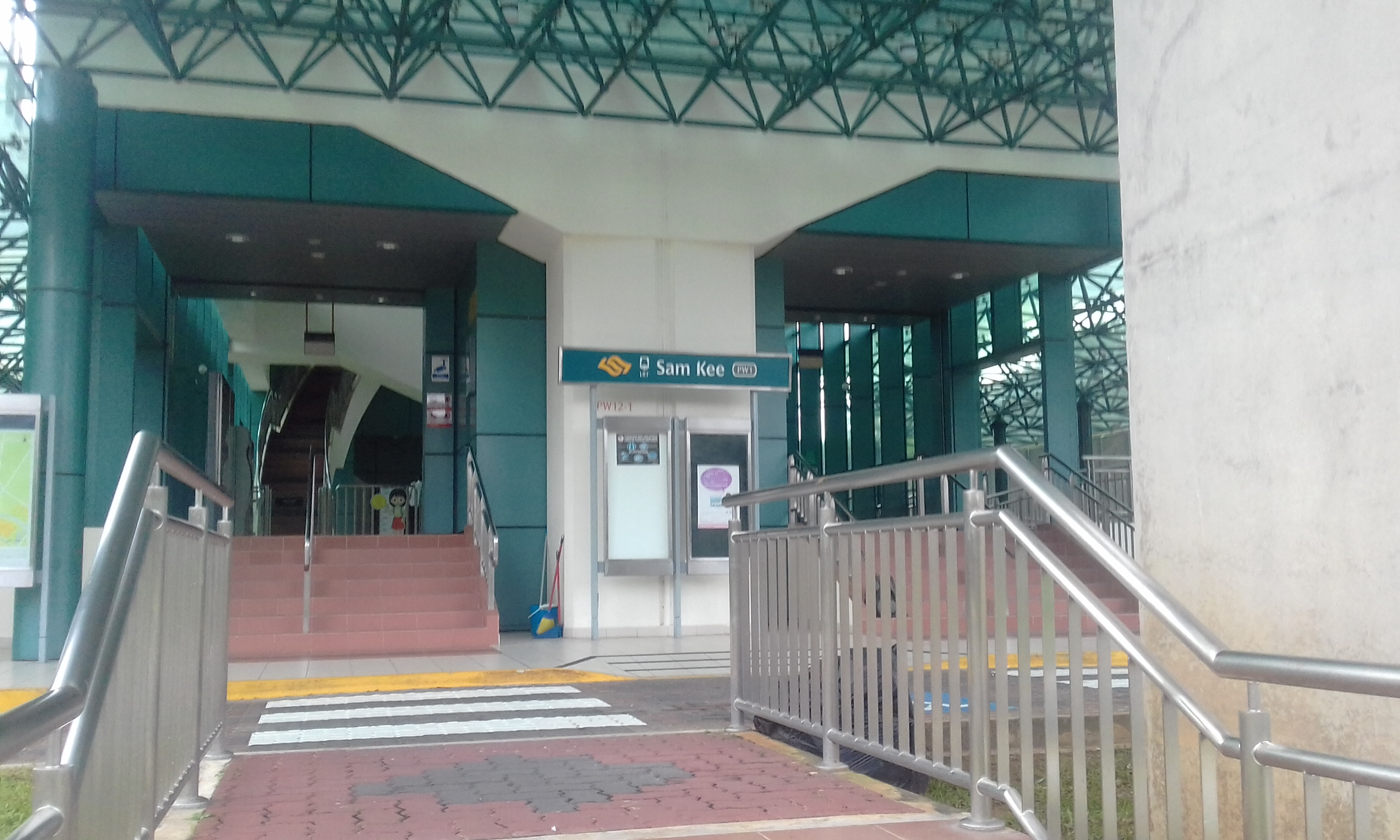 Sam Kee Entrance